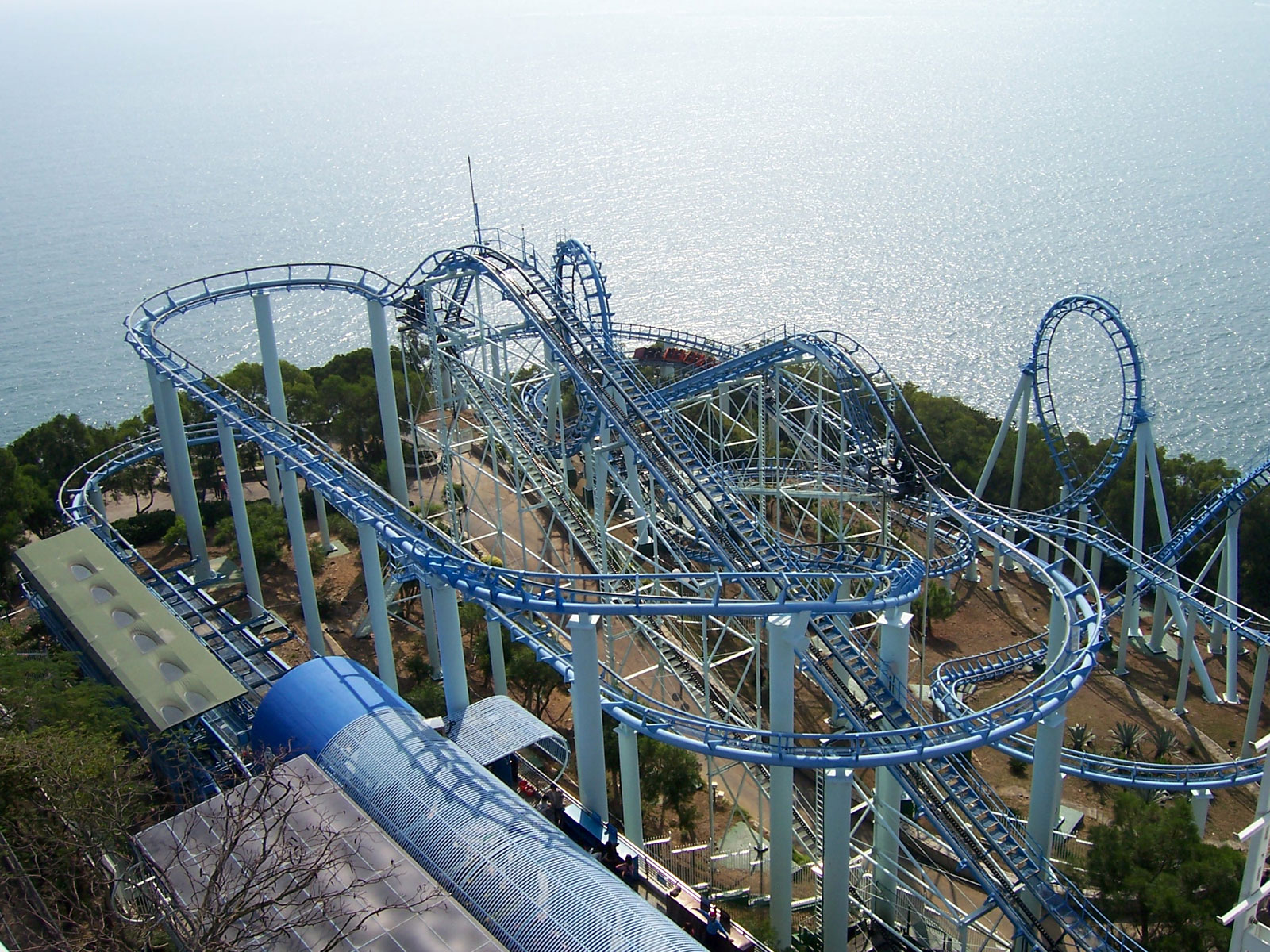 The Dragon rollercoaster at Ocean Park, Hong Kong, as viewed from the ferris wheel. Taken by Enoch Lau on 1 January 2006. As a courtesy, please let me know if you alter this image or this image description page. Original filename was 100_1059.JPG. it is 360 feet